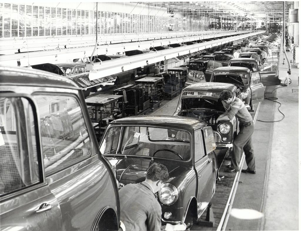 placeholder placeholder placeholder